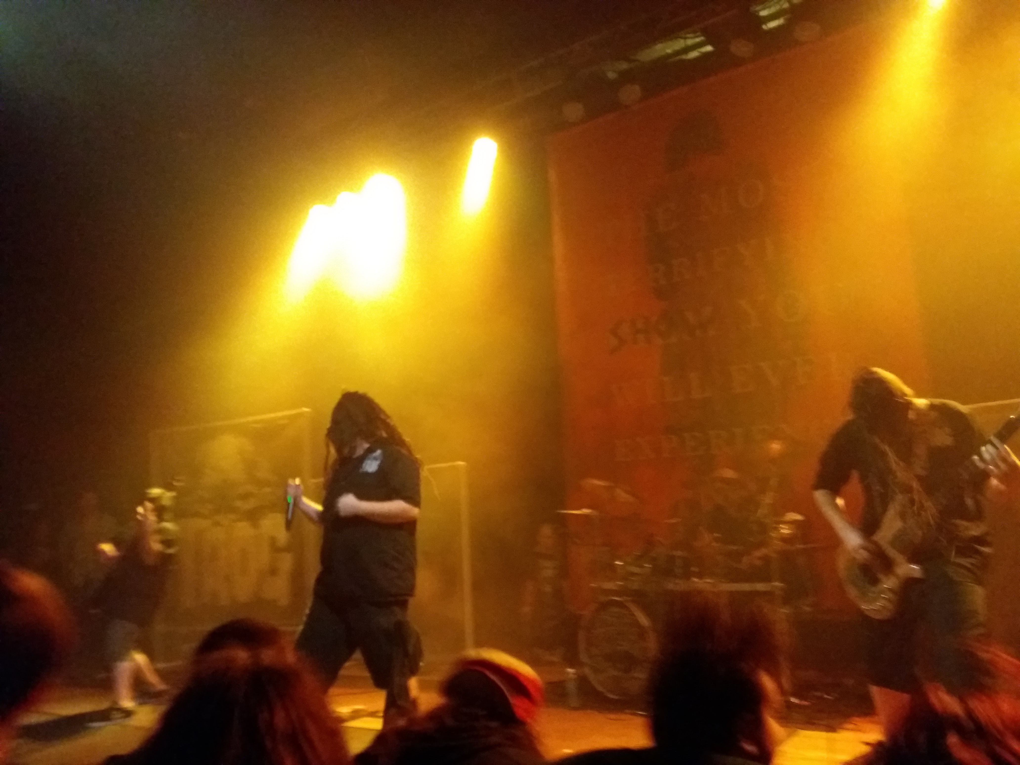 the band Troglodyte at Hammerween in Lawrence, KS in 2016.